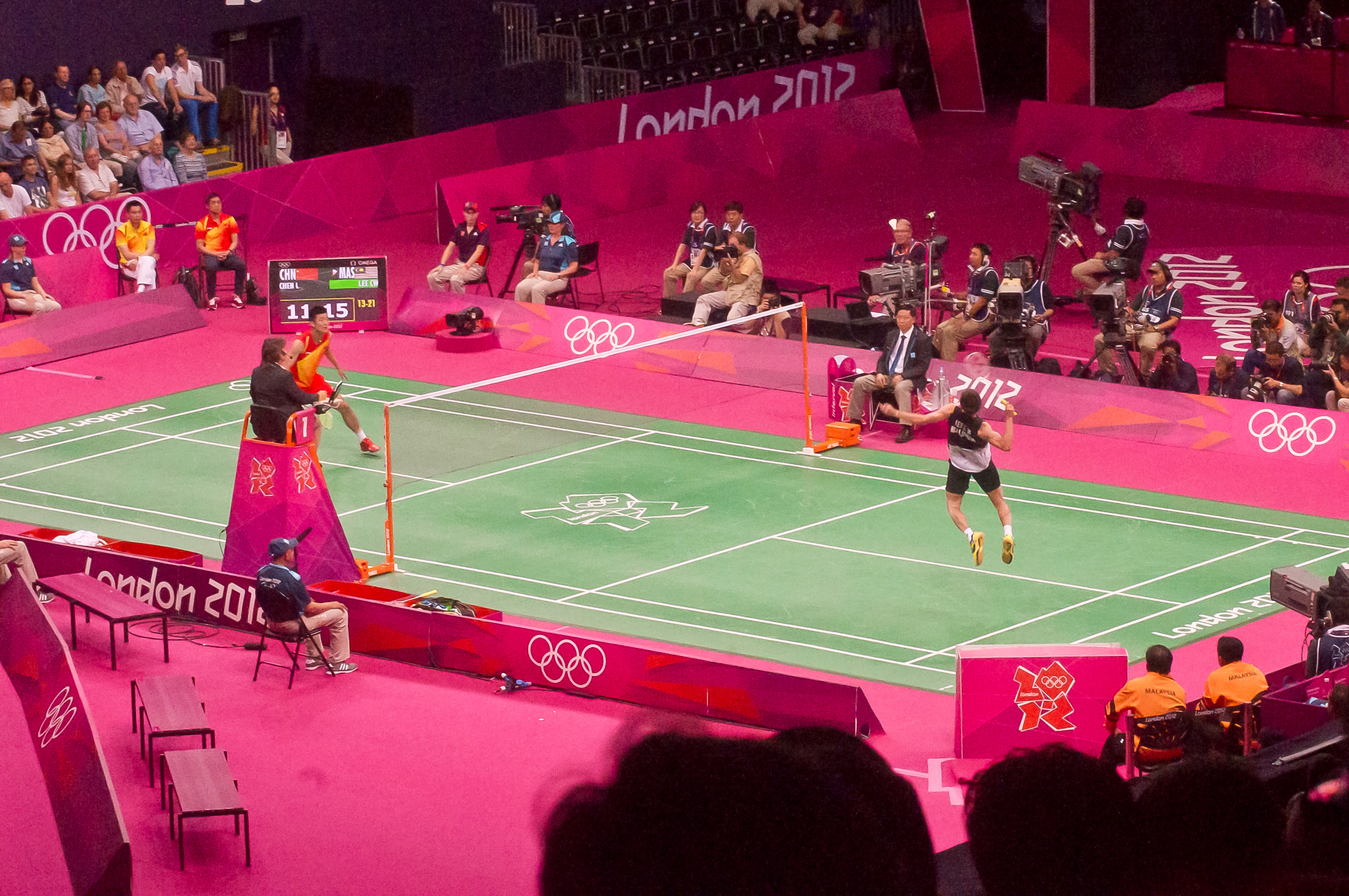 Lee Chong Wei of Malaysia vs Long Chen of China